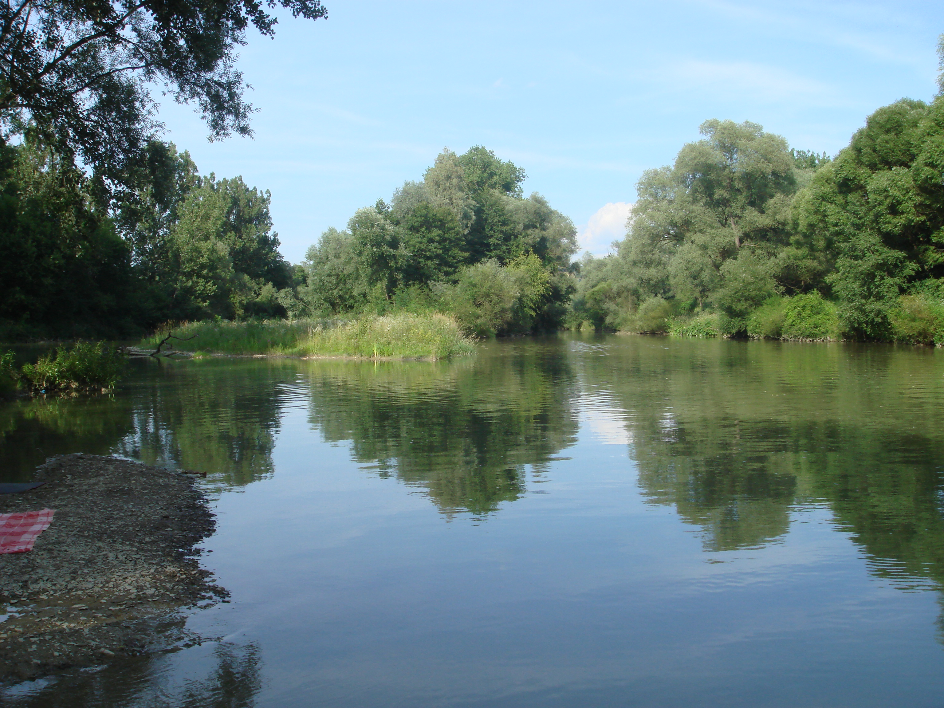 Confluence of Laborec and Cirocha near Humenné (Prešov Region, Slovakia).